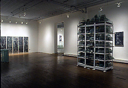 clemens weiss exhibition: installation + logic, r.feldman gallery, new york 1991